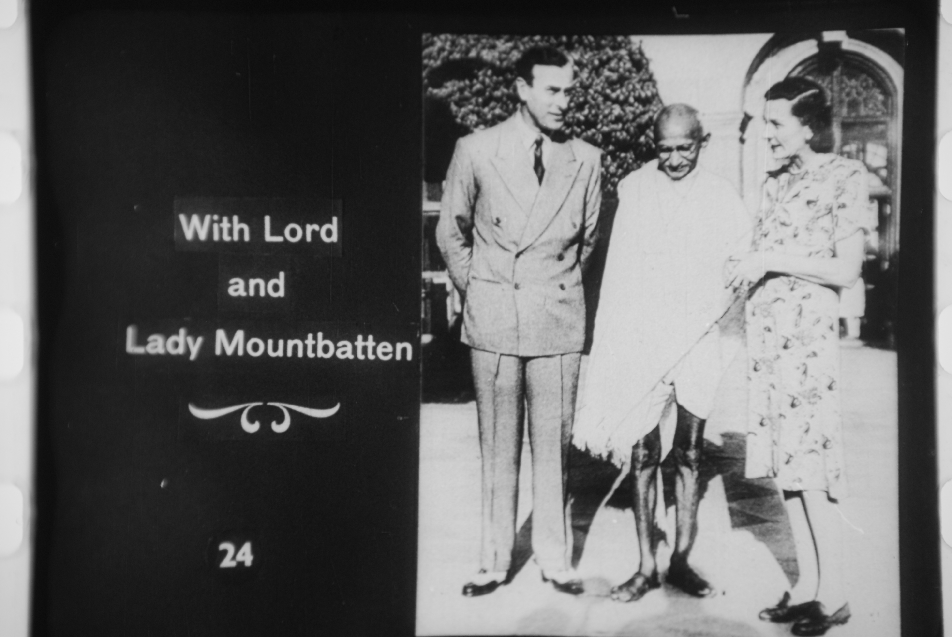 Gandhi with Lord and Lady MountBatten